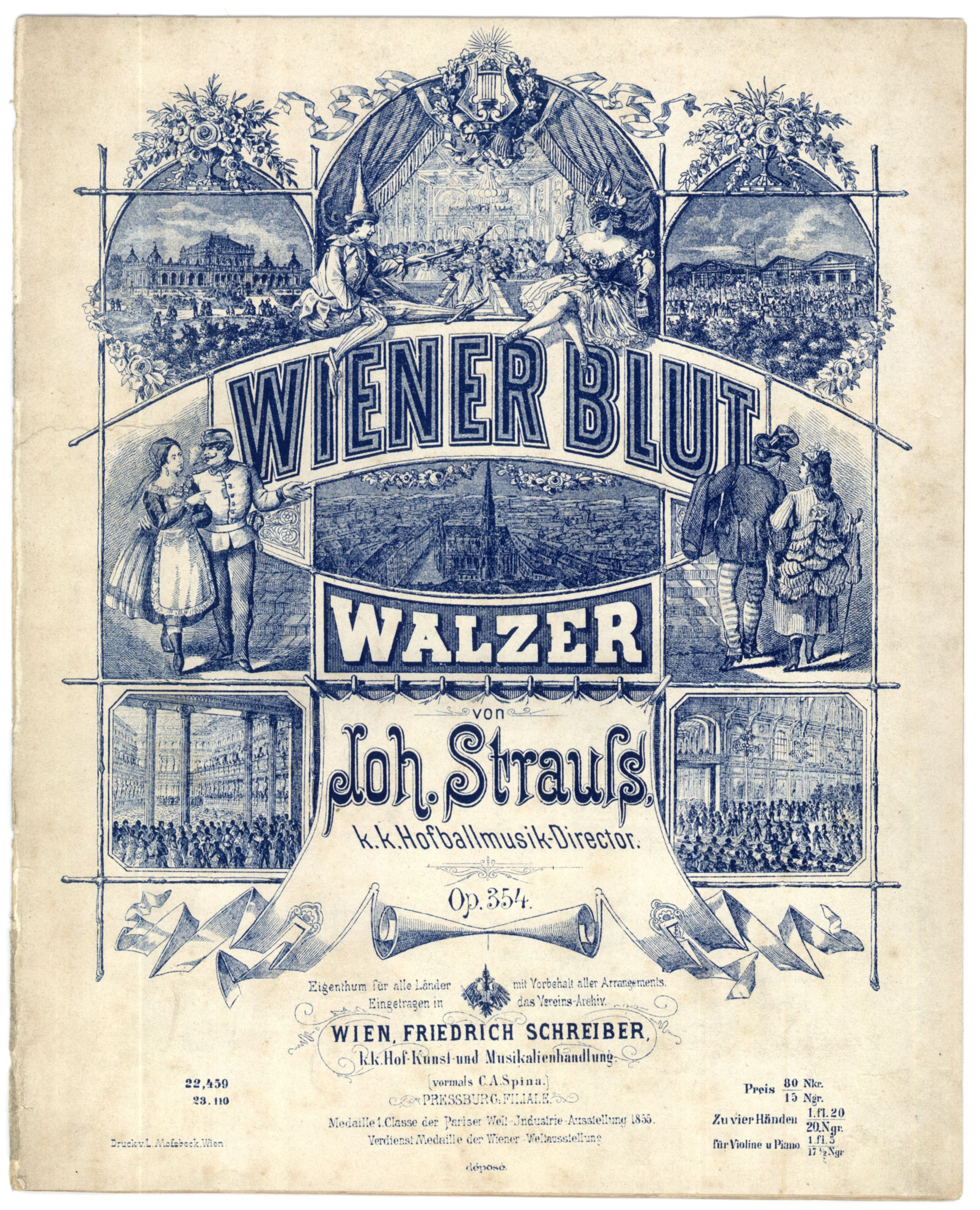 Johann Strauss II: Wiener Blut ('Viennese Blood' or 'Viennese Spirit') op. 354, first performed by the composer on 22 April 1873. Published by Friedrich Schreiber, k.k. Hof-Kunst- und Musikalienhandlung, Vienna; formerly C. A. Spina